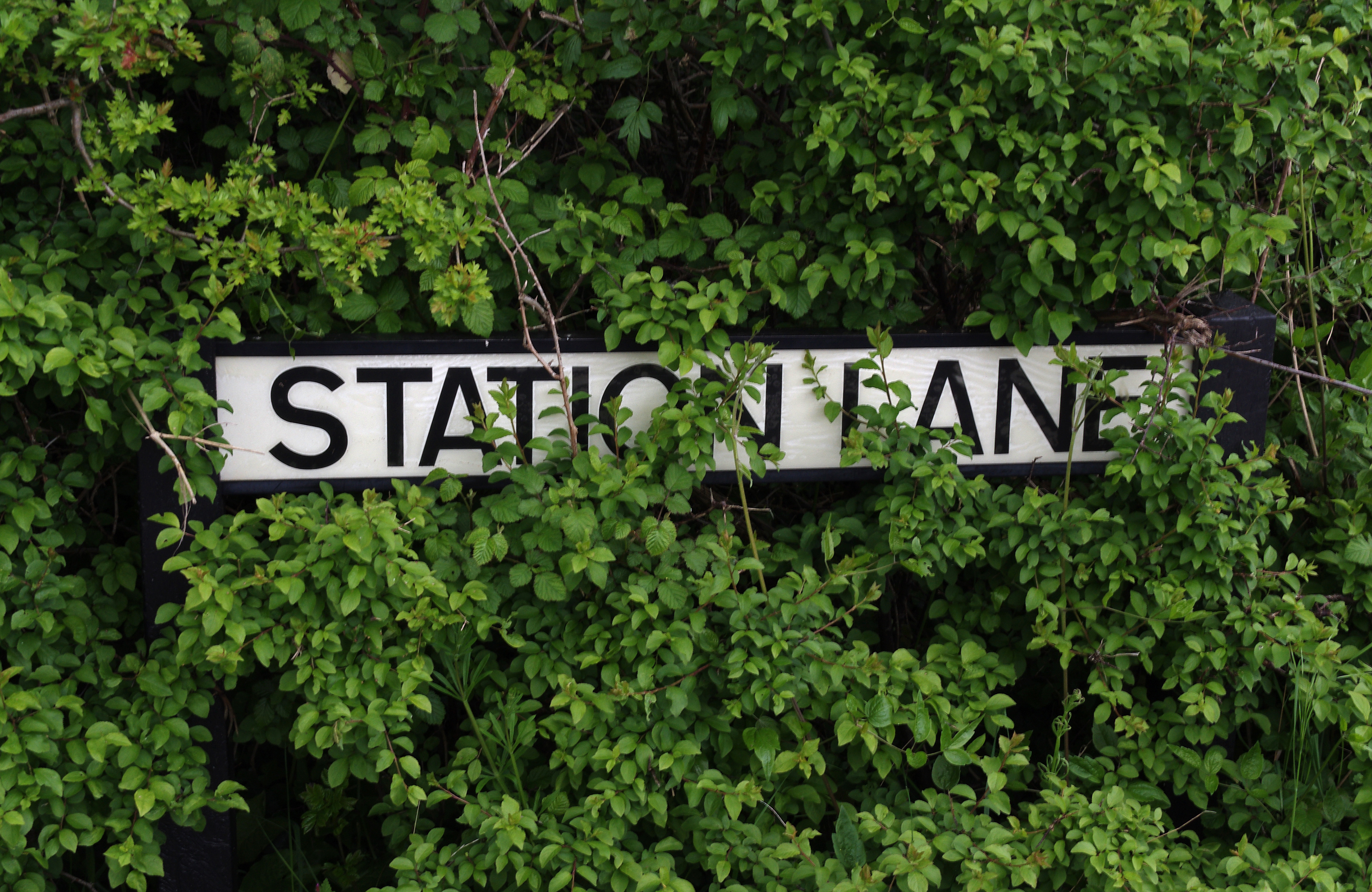 Station Lane roadsign, the only sign of where Tytherington railway station used to be.